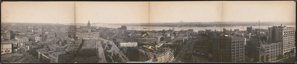 Photograph of 1905 shows buildings including the Wayne County Courthouse (Wayne County Building) and streets along the shore of the Detroit River in Detroit, Michigan.